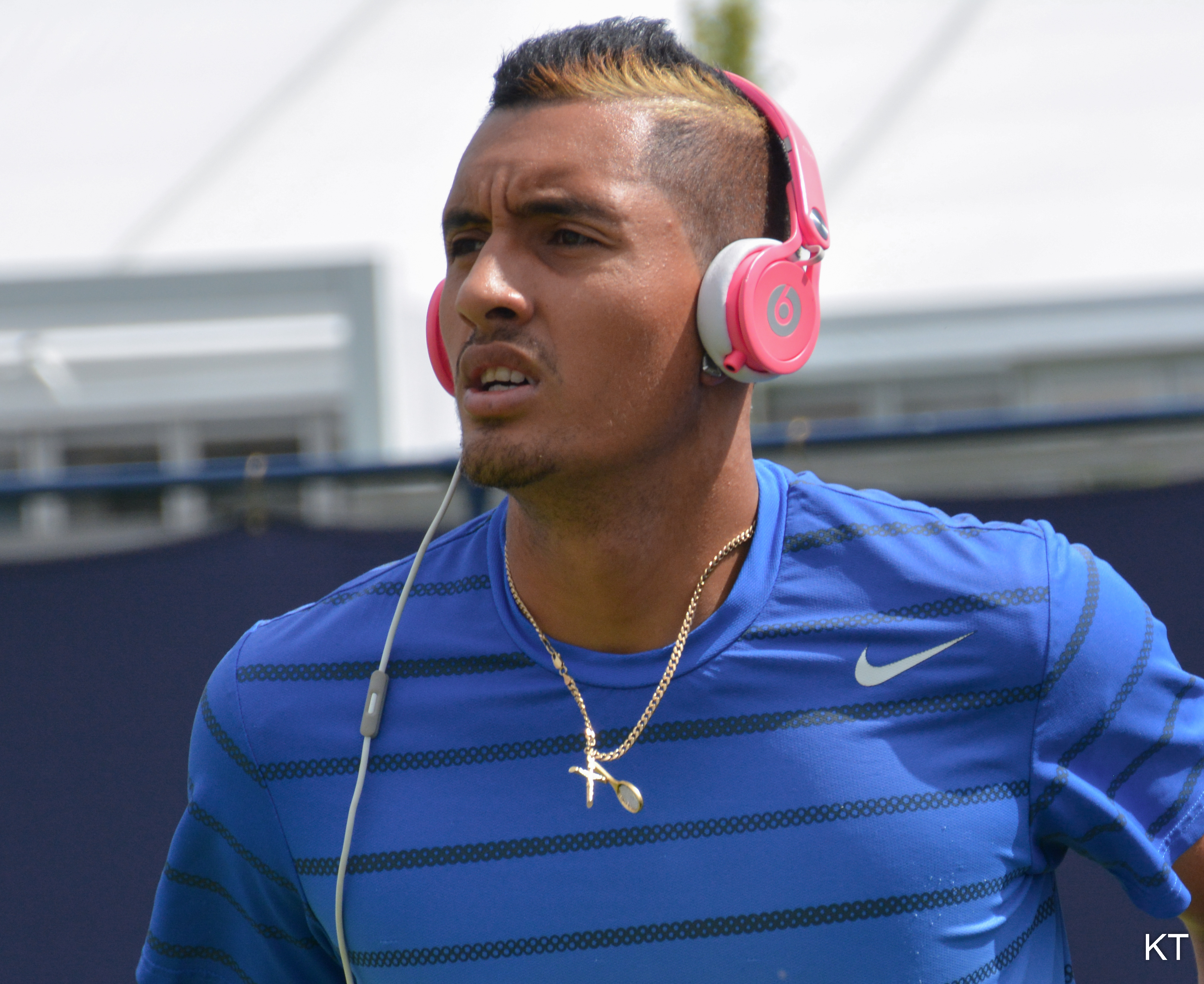 Aegon Championships, Queen's Club, June 2015.